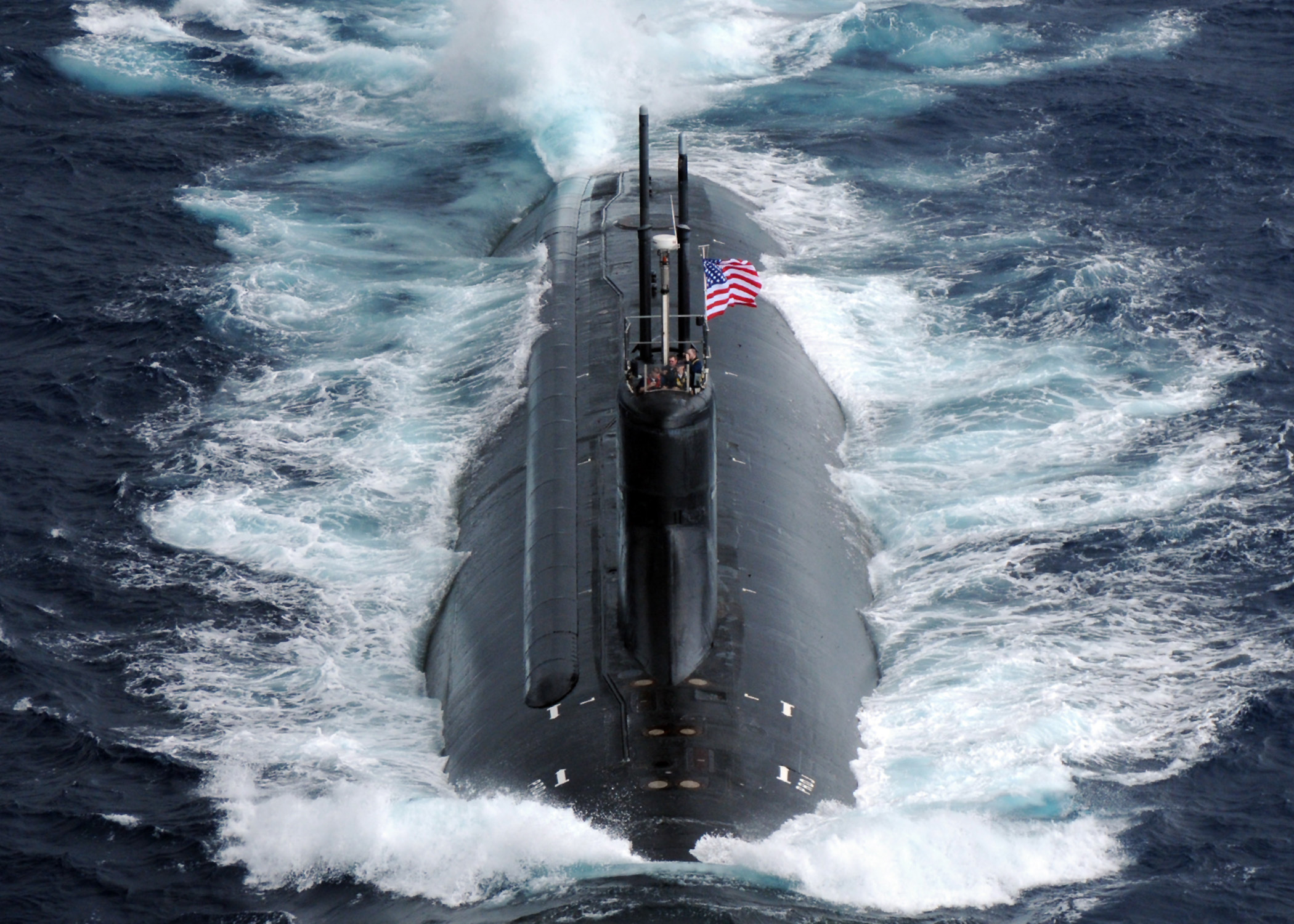 The Seawolf-class fast-attack submarine USS Connecticut (SSN 22) transits the Pacific Ocean during Annual Exercise (ANNUALEX 21G). ANNUALEX is a yearly bilateral exercise with the U.S. Navy and the Japan Maritime Self-Defense Force.